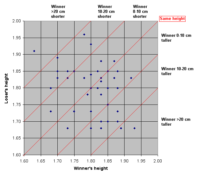 Graphical presentation of tabular data in List of heights of United States presidential candidates.